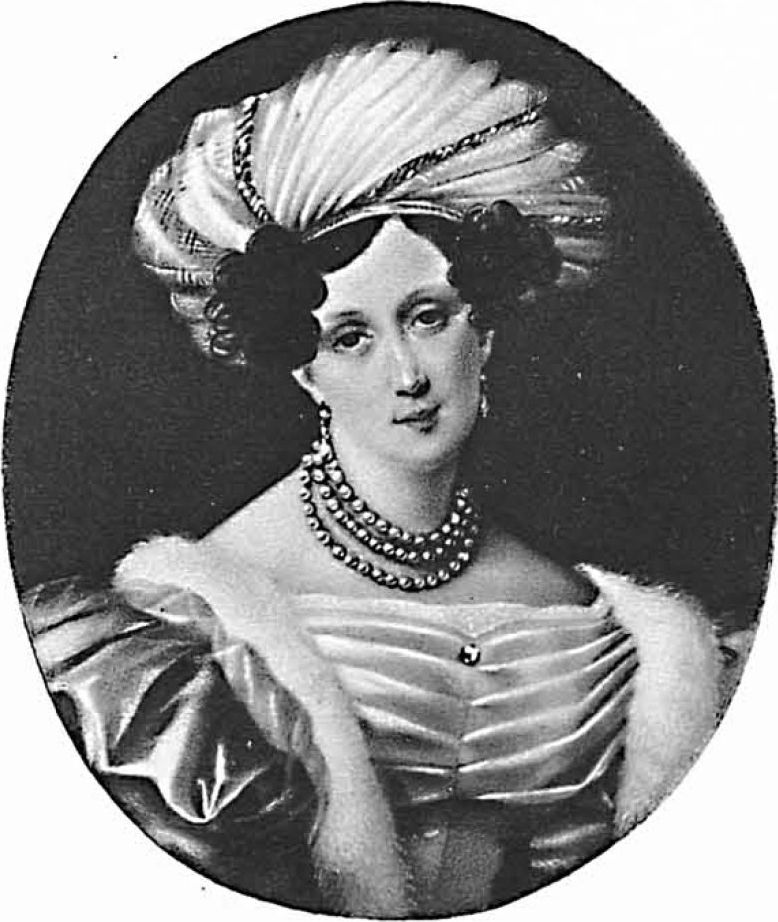 NADEJDA FEODOROWNA TCHETVERTINSRY